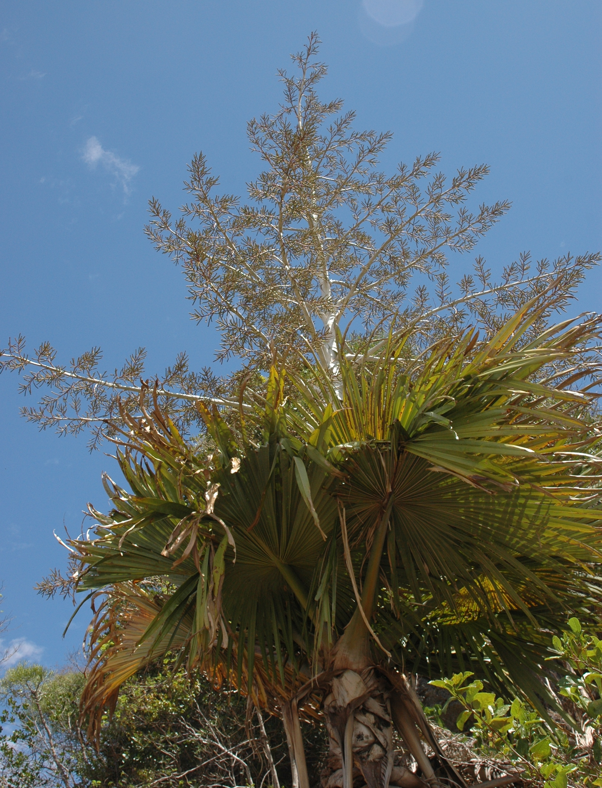 A photograph of the palm Tahina spectabilis